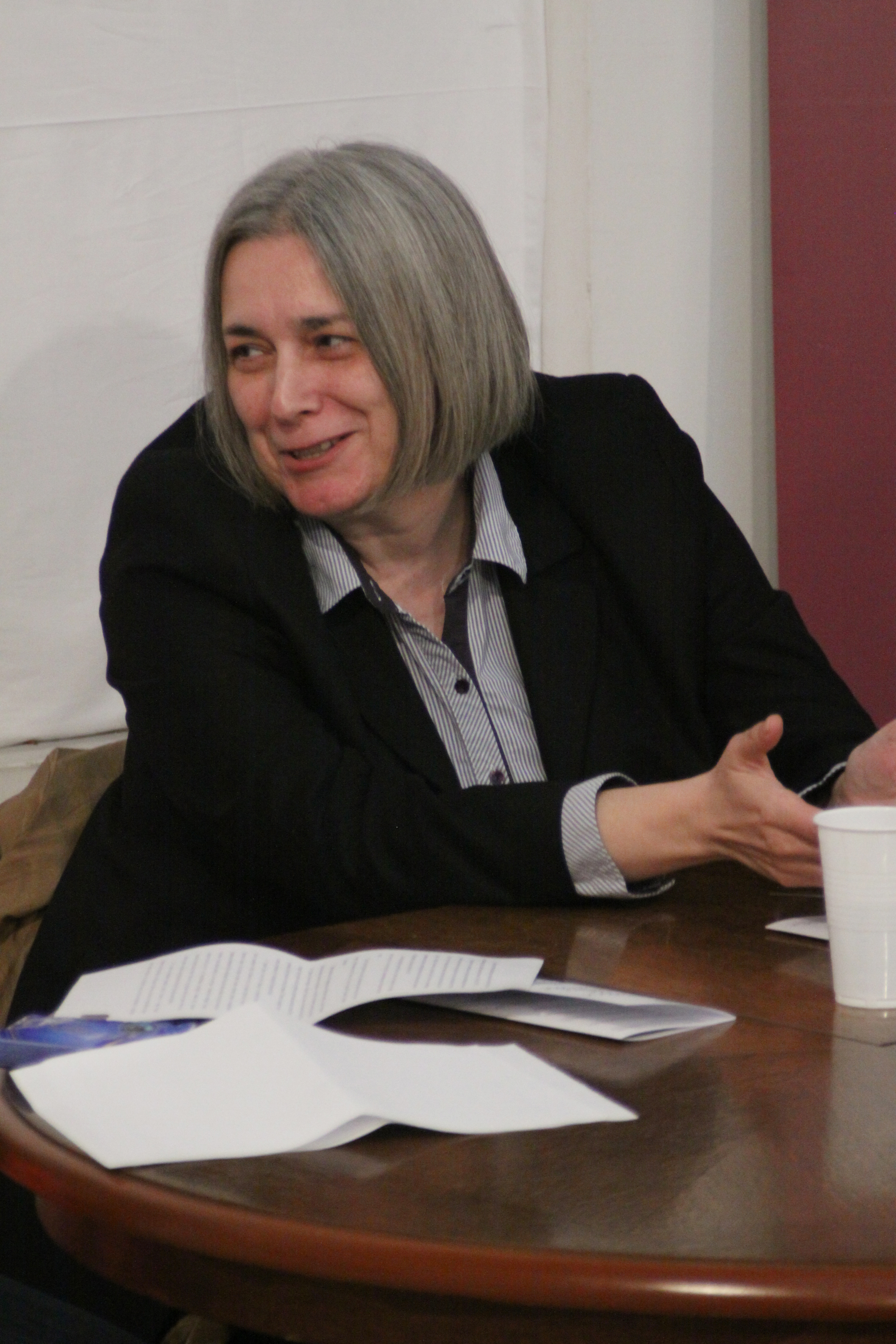 Slavic and Serbian fantasy cycle, University library, Belgrade, Serbia, Mirjana Novaković, Serbian writer. Srpski (latinica): Ciklus "Slovenska i srpska fantastika", Univerzitetska biblioteka, Beograd, Srbija, Mirjana Novaković, srpski pisac.